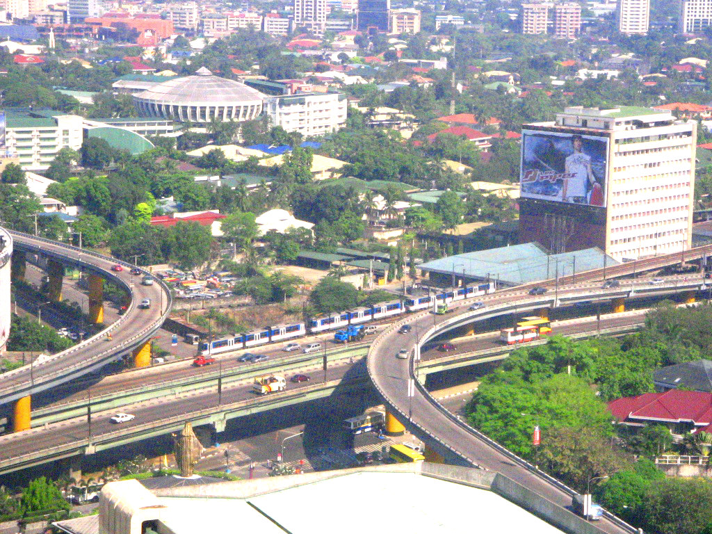 View of EDSA from Holiday Galleria Inn. Orig. Flickr description: (in Filipino) Isang Linggo sa Ortigas. (A Week in Ortigas)